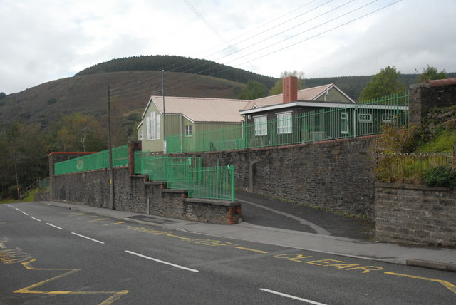 Tonmawr Original description: Tonmawr Primary School